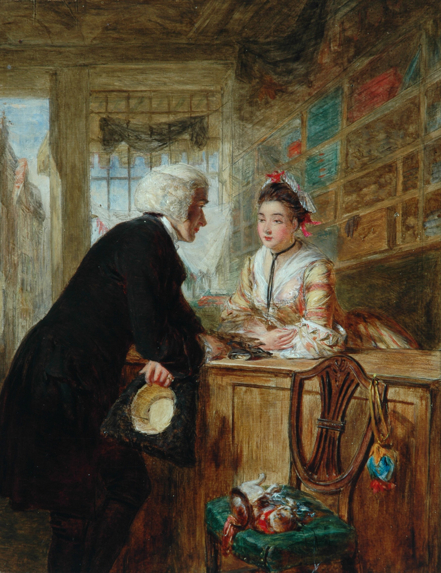 The situation depicts a scene from Laurence Sterne's A Sentimental Journey Through France and Italy: Parson Yorick - depicted as Sterne - and the gloveseller, Grisette, are in her Paris shop.